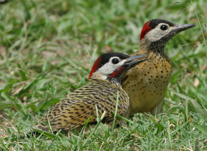 Spot-breasted Wookpecker - Parque del Este, Caracas, Venezuela